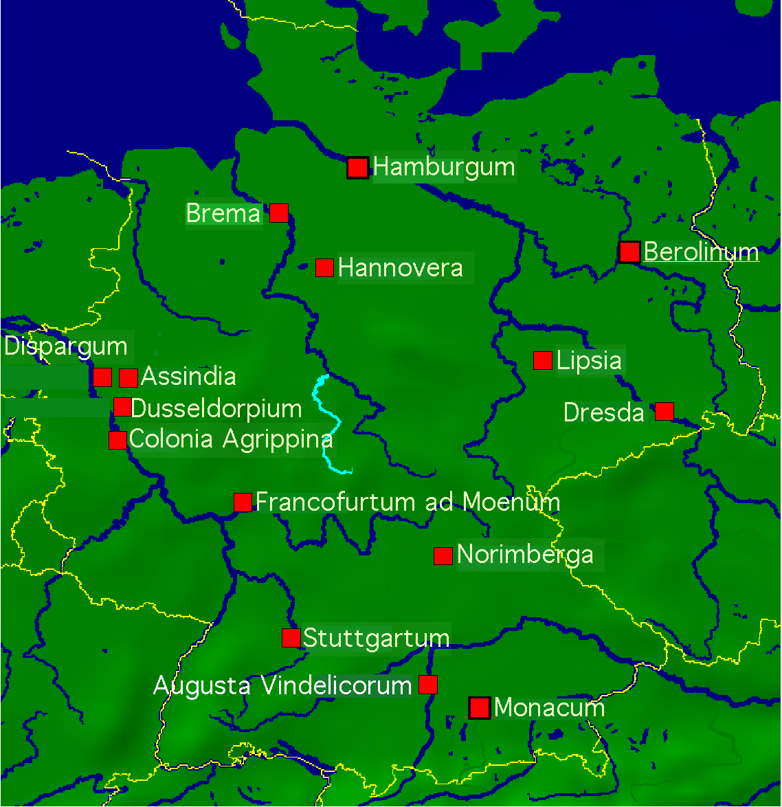 Fulda (river) in Germany with Latin place names.